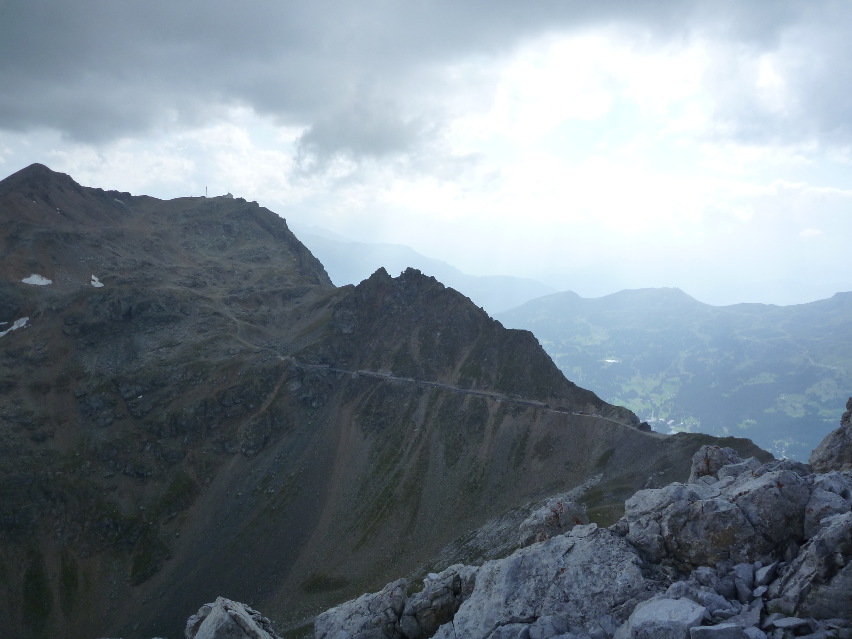 Gredigs Fürggli with path to Parpaner Rothorn near Arosa/Switzerland